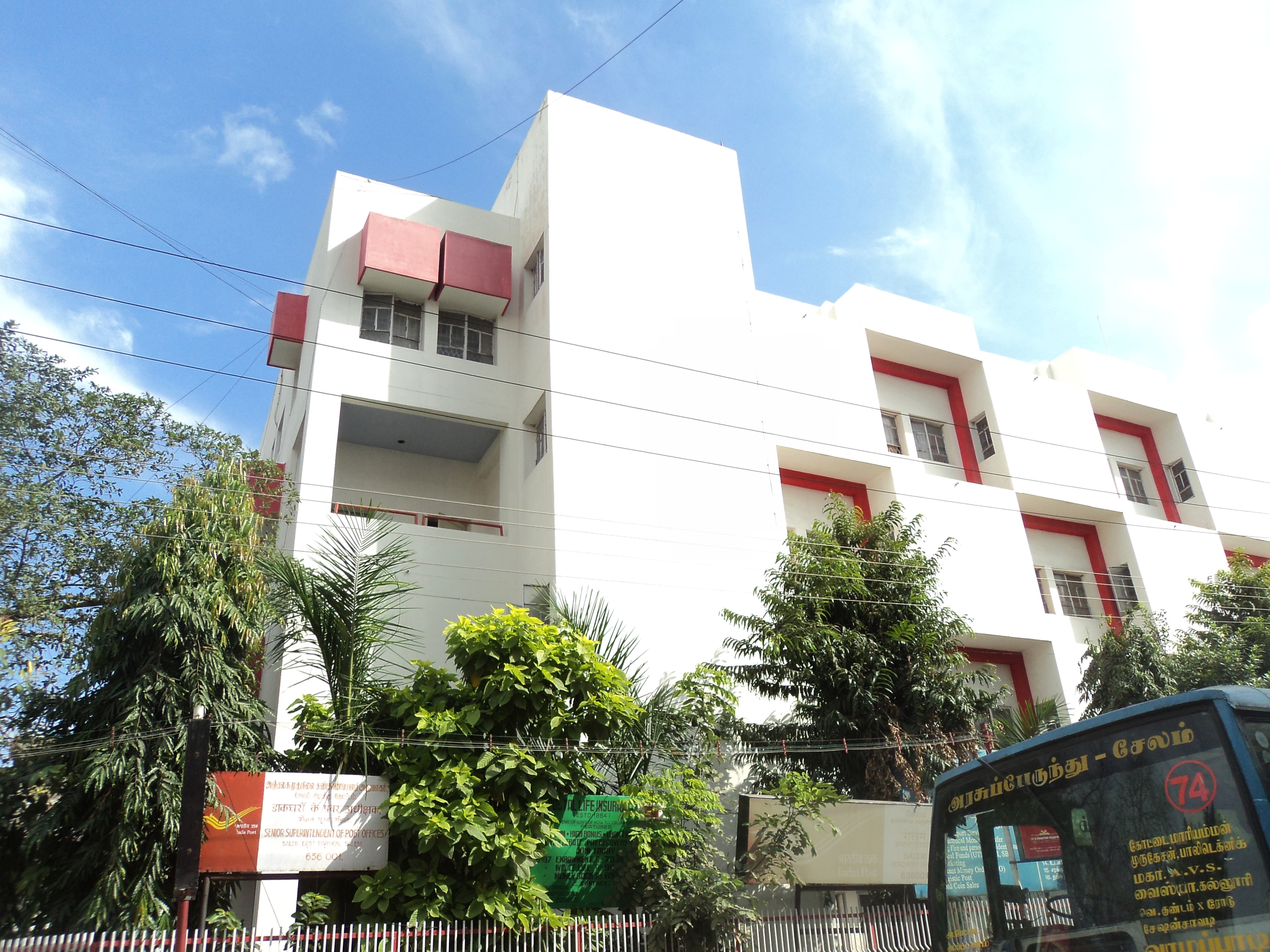 Foto walk,the wikipedia workshop event-december-2011, Salem, Tamil Nadu